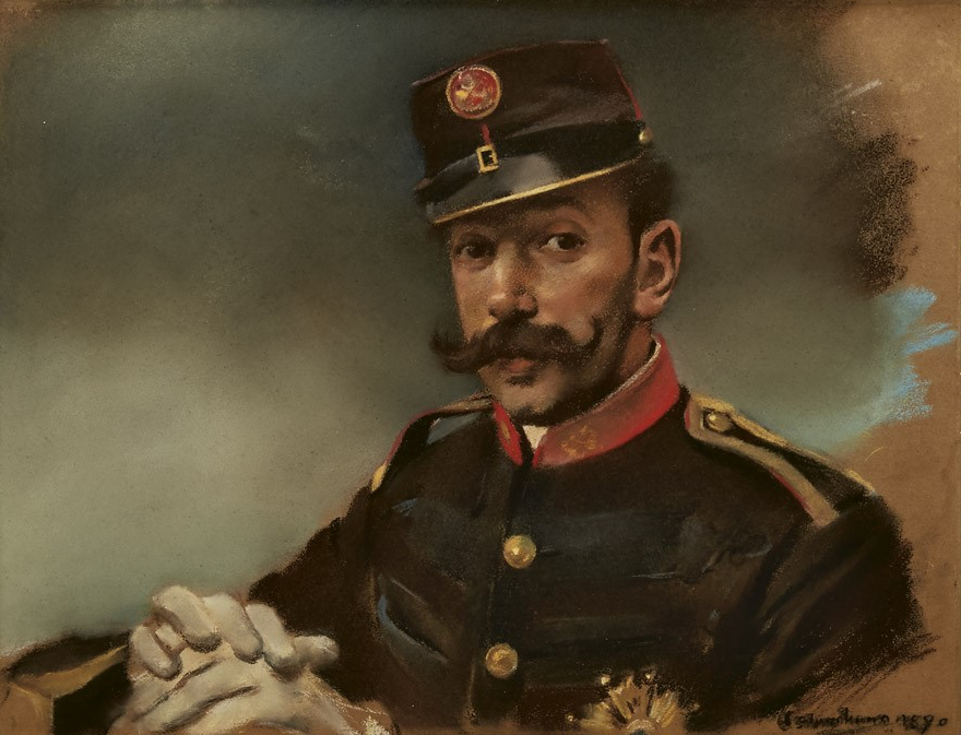 Portrait of Colonel Ribeiro Artur, by Columbano Bordalo Pinheiro